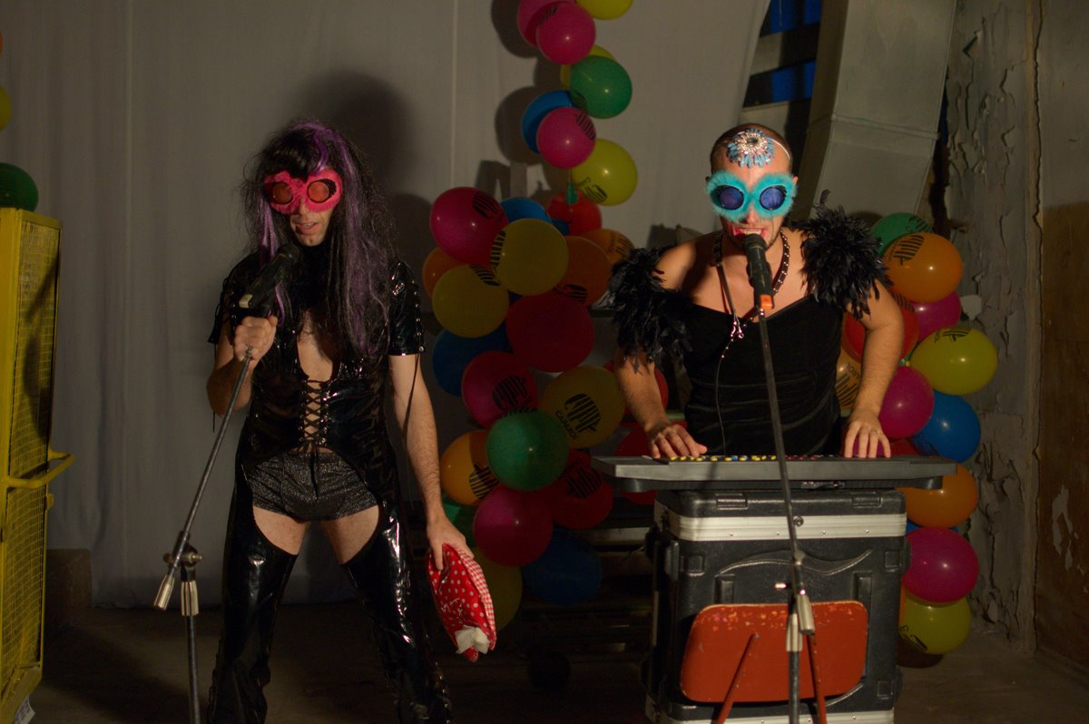 Концерт гурту "Рапани" на обувній фабриці Terra Futura X 2011